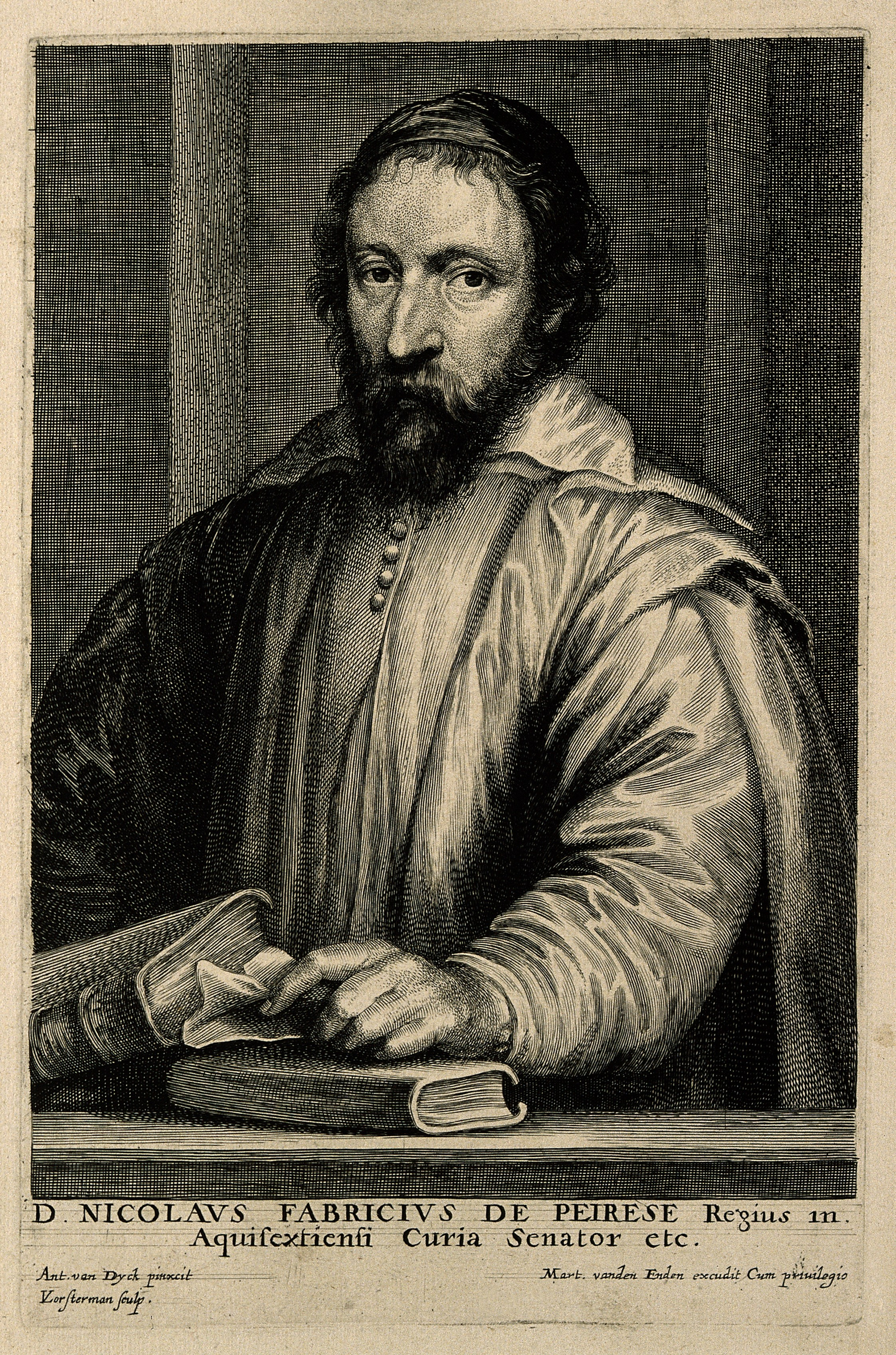 Nicolas Claude Fabri de Peiresc. Line engraving by L. Vorsterman, 1646, after A. van Dyck. Iconographic Collections Keywords: portrait prints; Lucas Emil Vorsterman; engravings; Nicolas-Claude Fabri de Peiresc